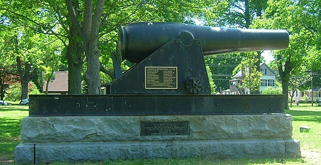 10-inch Rodman gun from Fort Hale. Installed on the East Haven Green.